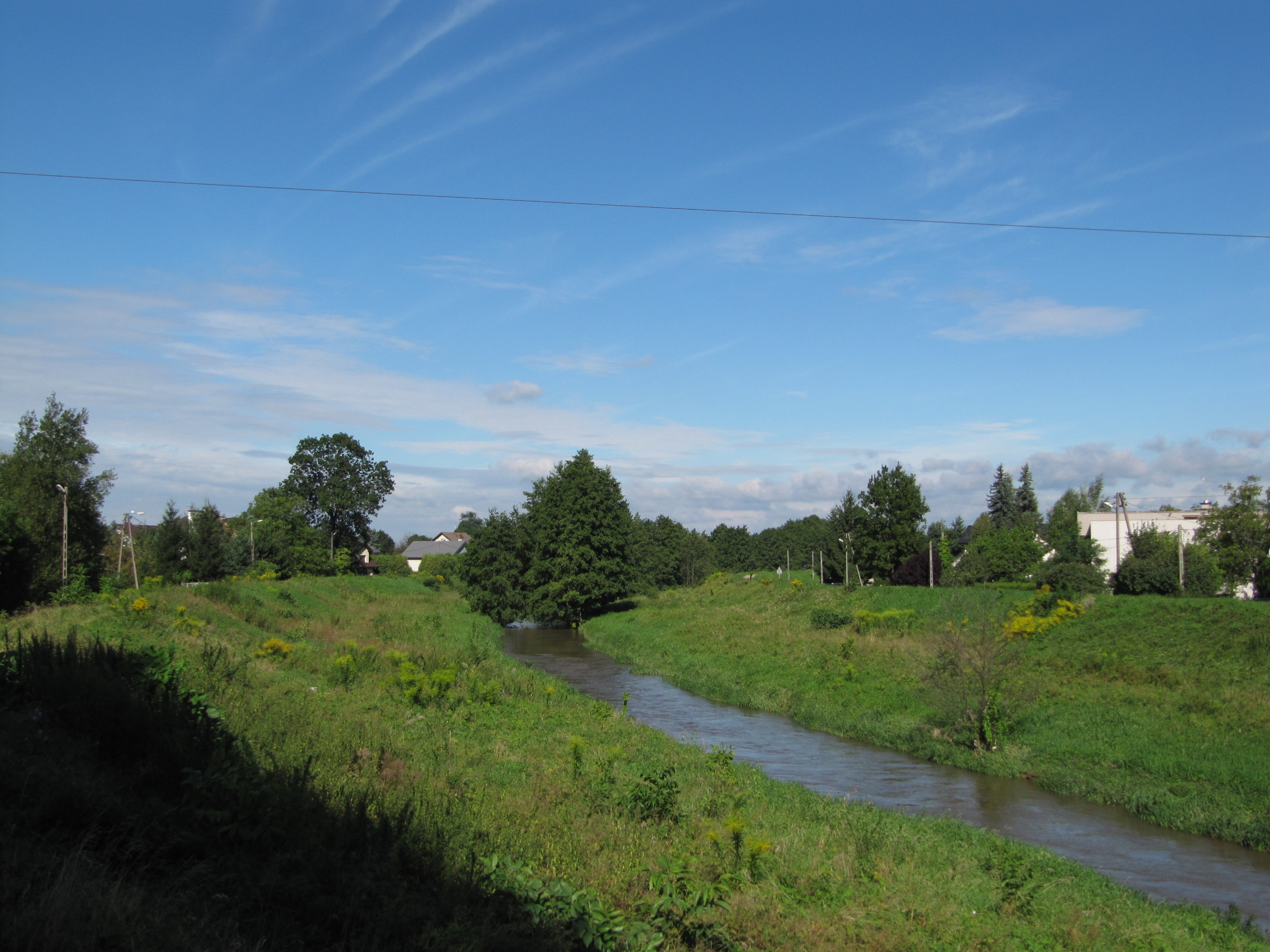 Rudawa